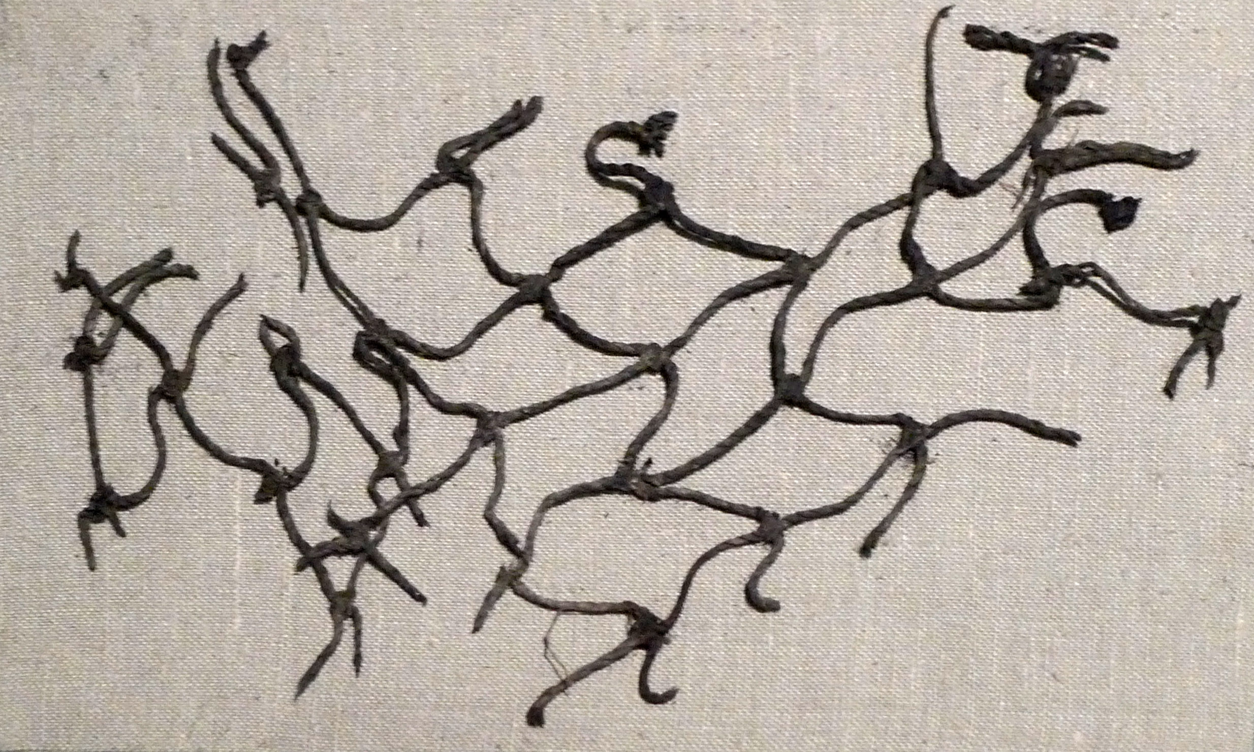 Remains of a Neolithic fishing net, Canton of Bern (Switzerland), shown on a gray canvas.